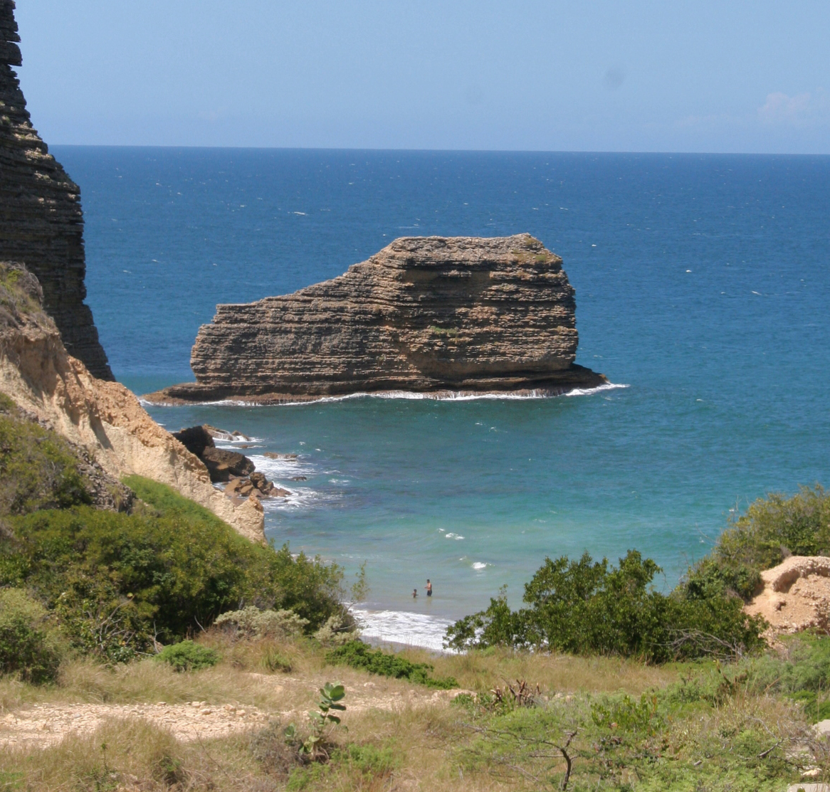 El zapato/The shoe in Monte Cristi, Dominican Republic